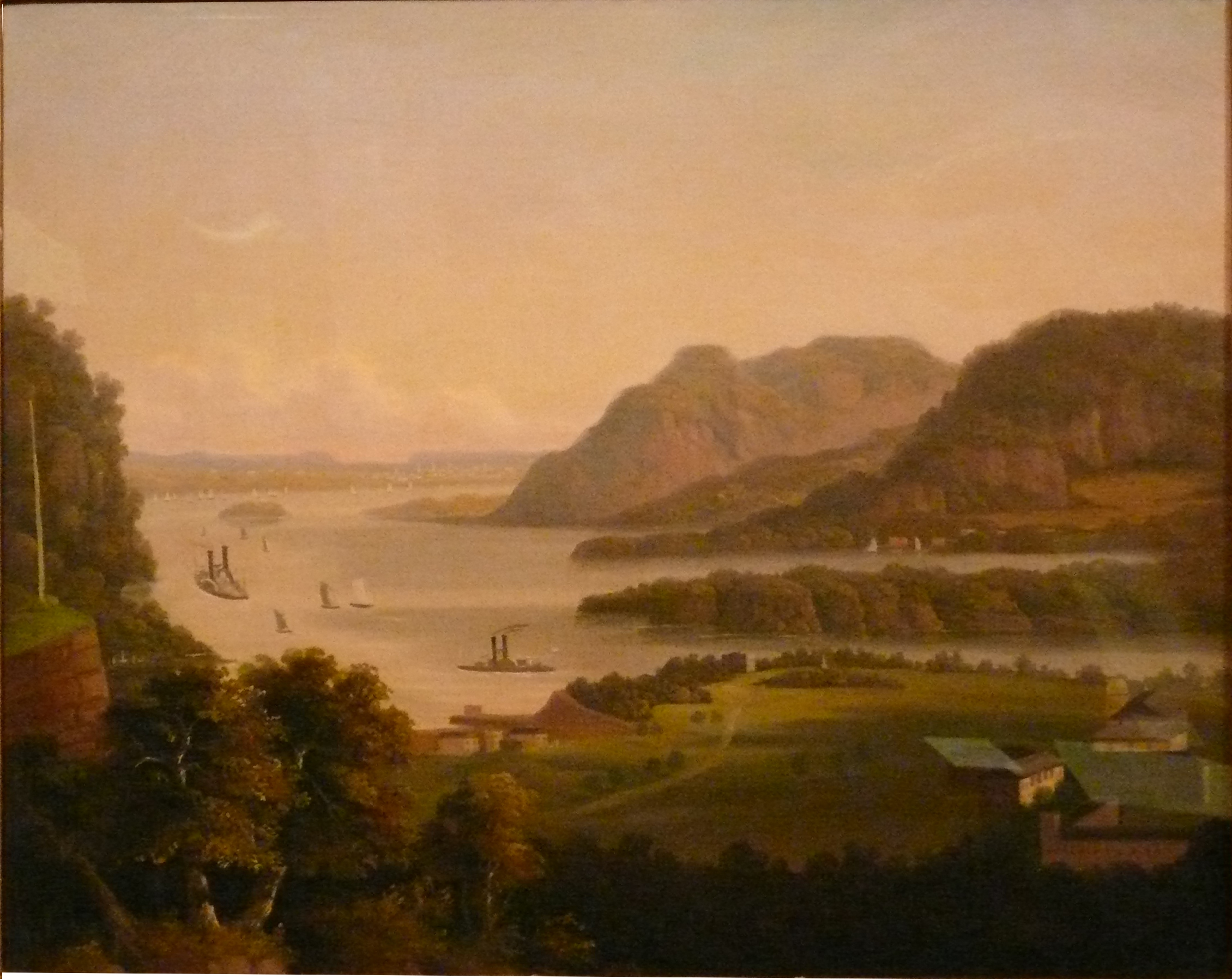 Unknown artist, View of West Point from Fort Putnam in the West Point Museum.. ca. 1855 oil on canvas Gift of Mr and Mrs Thomas F. Davis in memory of MG Louis B. Lawton (USMA 1893) Inv. no 6584